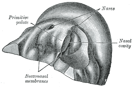 Primitive palate of a human embryo of thirty-seven to thirty-eight days. (From model by Peters.) On the left side the lateral wall of the nasal cavity has been removed.